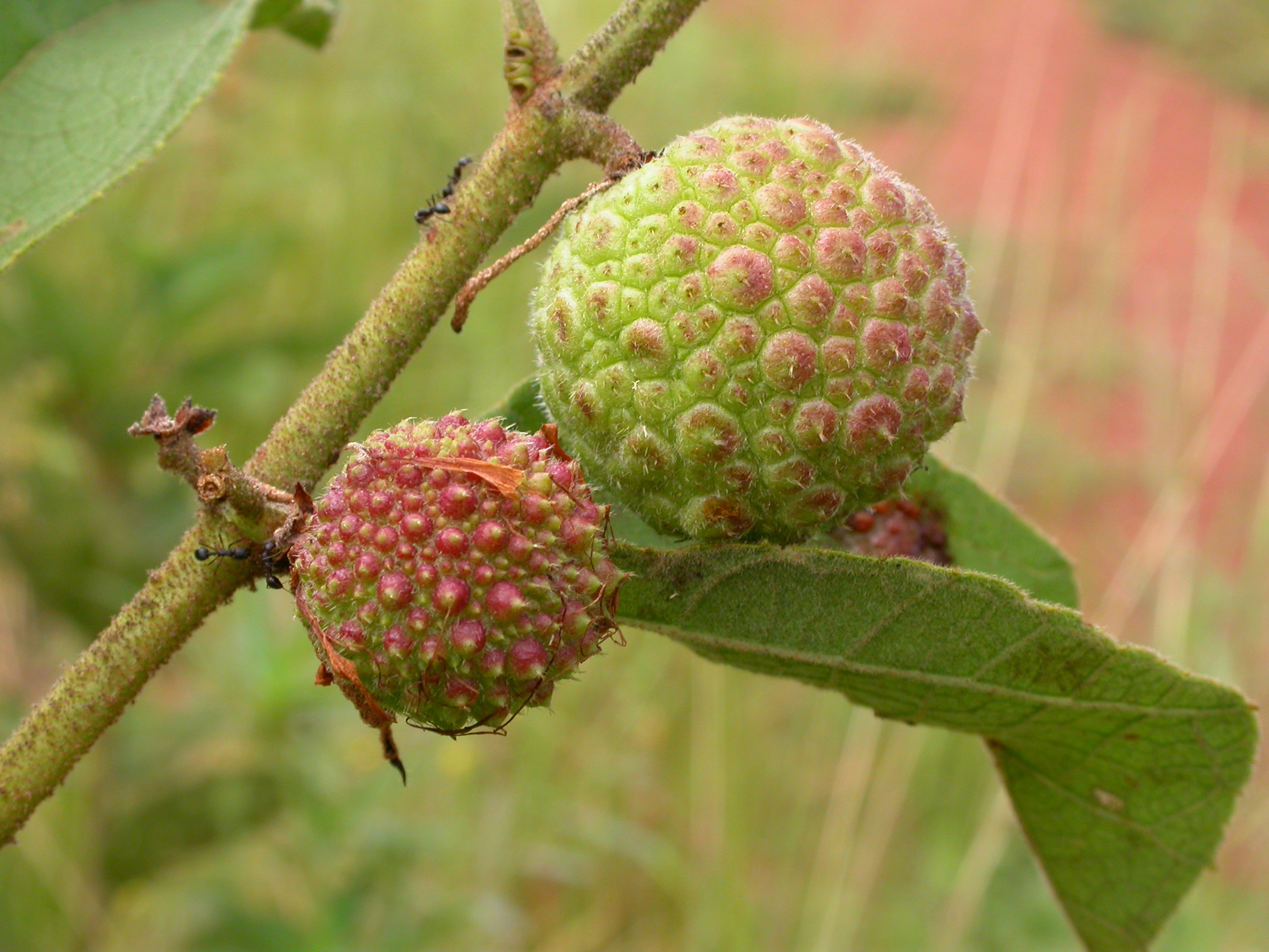 Fruits of Triumfetta lepidota. Burkina Faso, between Léo and ghanaian border.